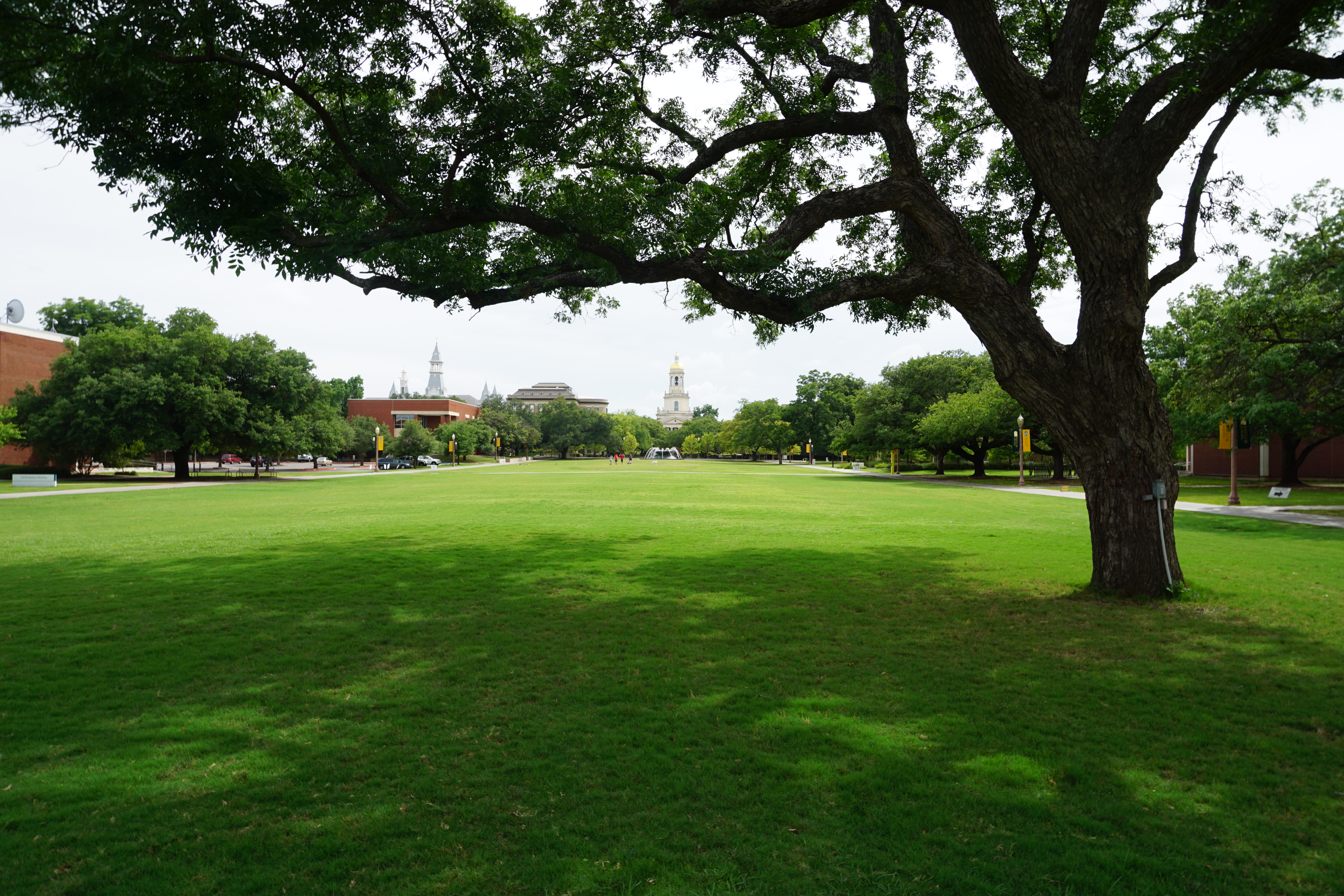 The Fountain Mall on the campus of Baylor University in Waco, Texas (United States).